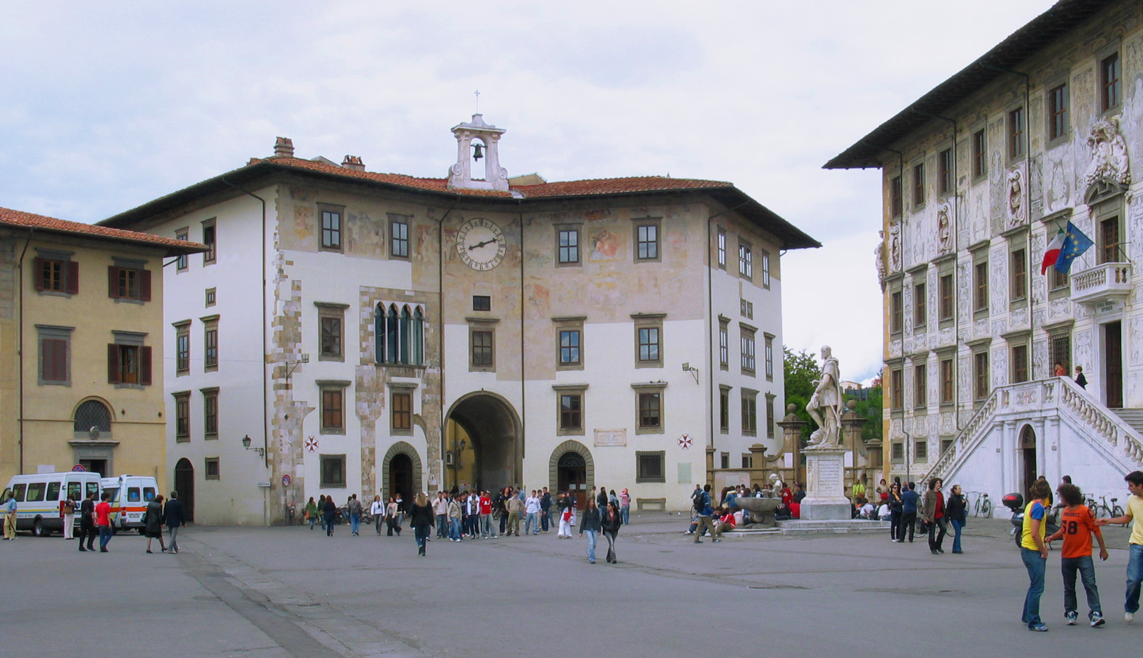 Piazza dei Cavalieri, located in the town of Pisa/Italy